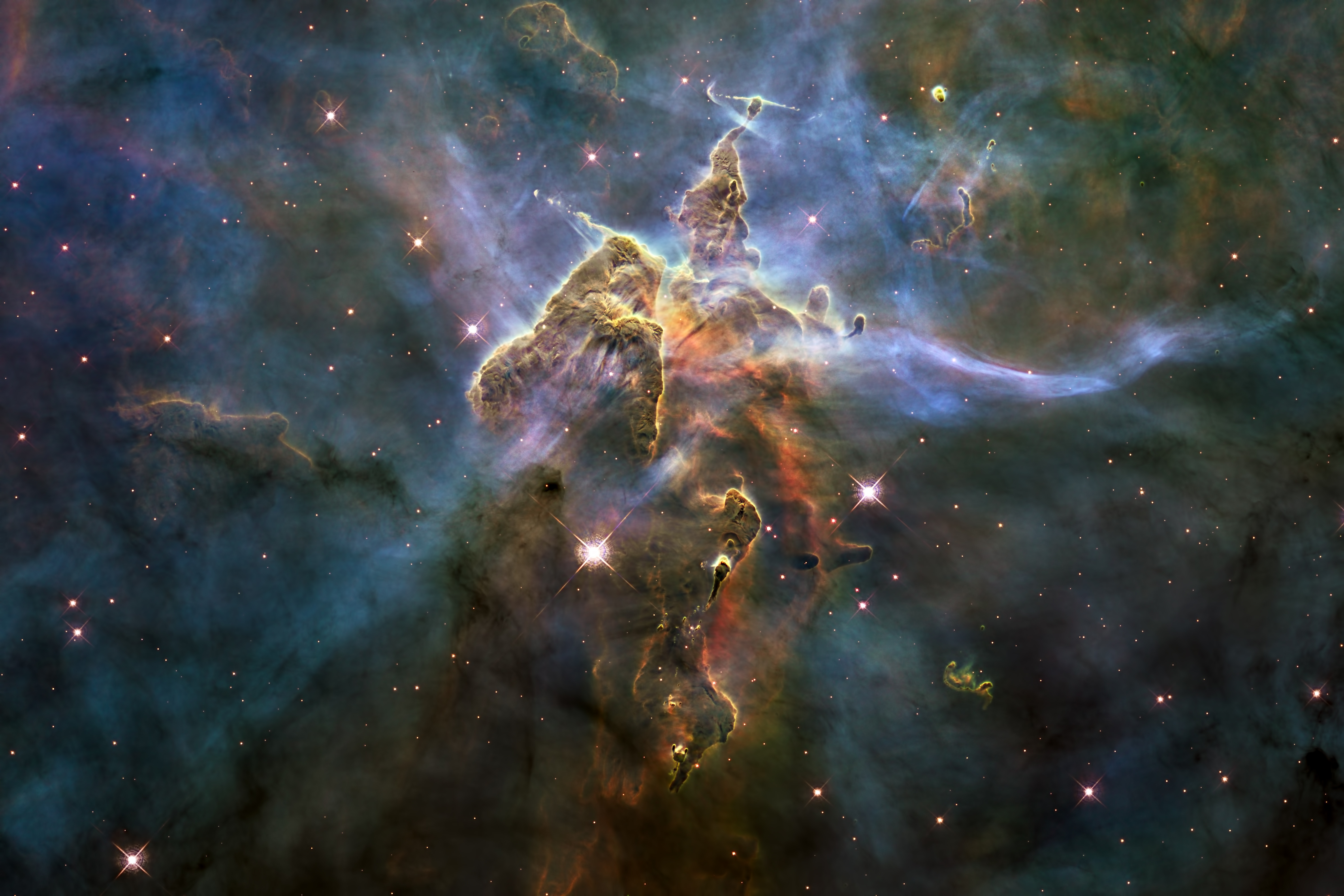 Hubble's 20th anniversary image shows a mountain of dust and gas rising in the Carina Nebula. The top of a three-light-year tall pillar of cool hydrogen is being worn away by the radiation of nearby stars, while stars within the pillar unleash jets of gas that stream from the peaks.